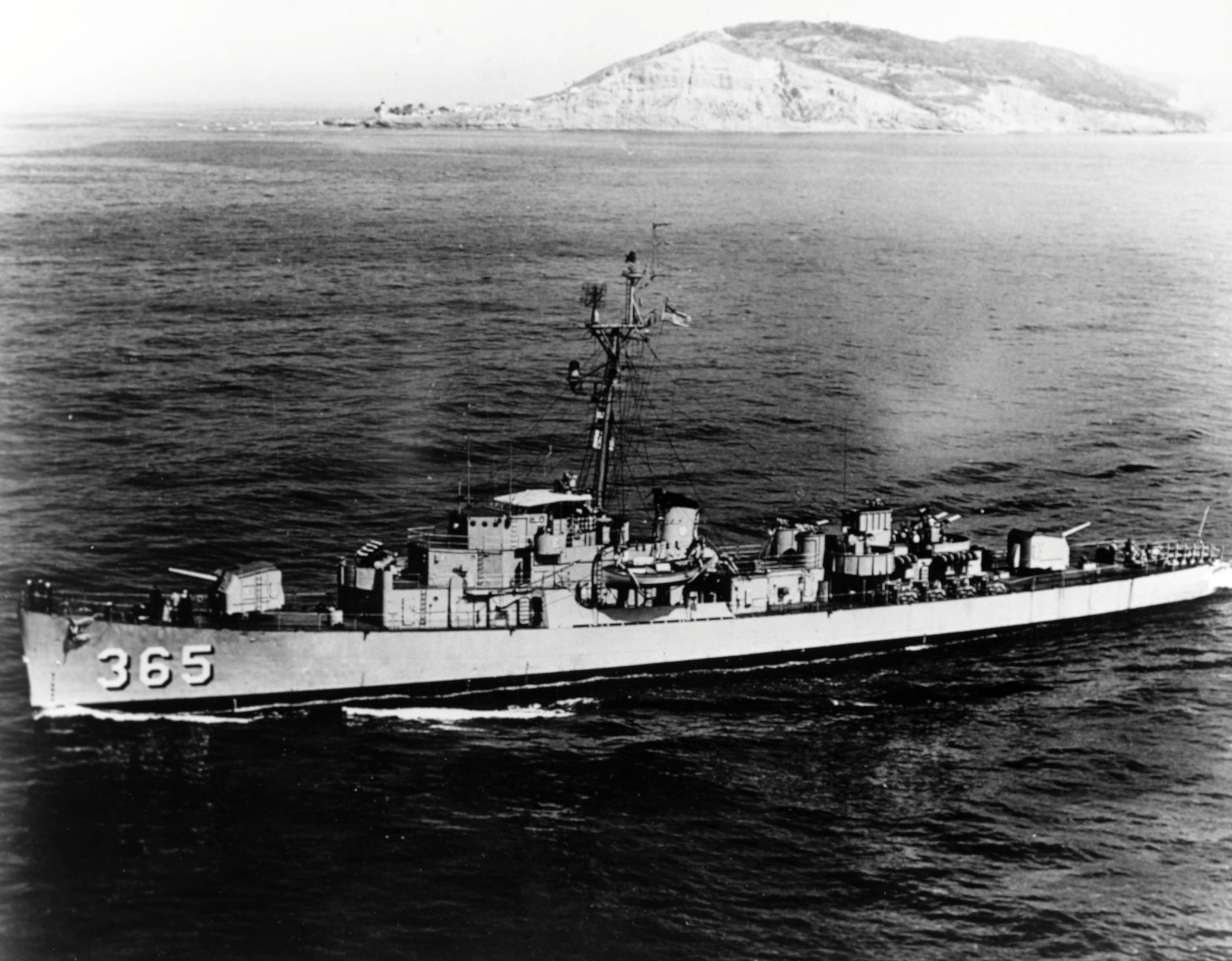 The U.S. Navy destroyer escort USS McGinty (DE-365) underway off San Diego, California (USA), in 1959.